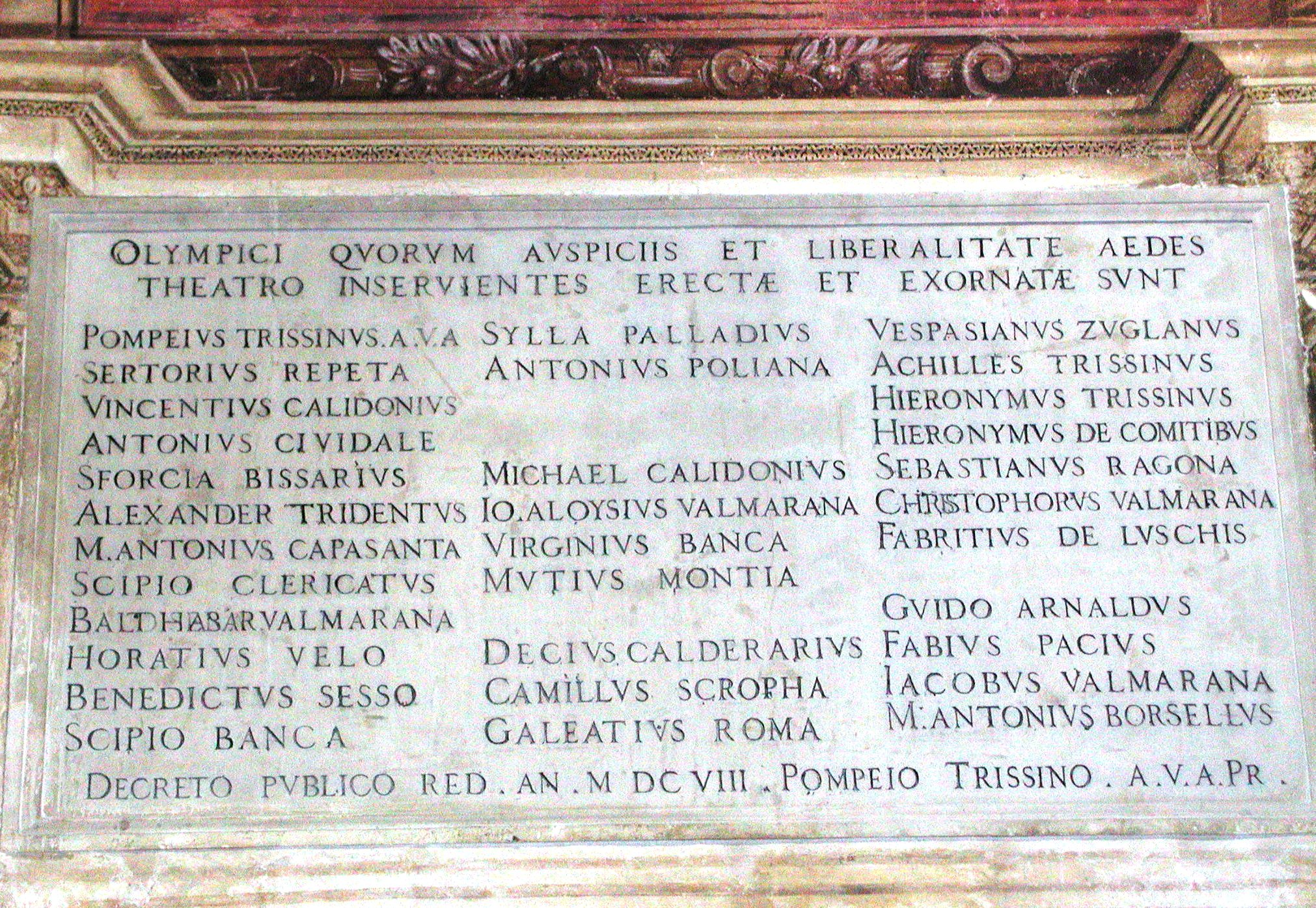 Marble plate listing Teatro Olimpico founders, placed inside the theater in 1608.